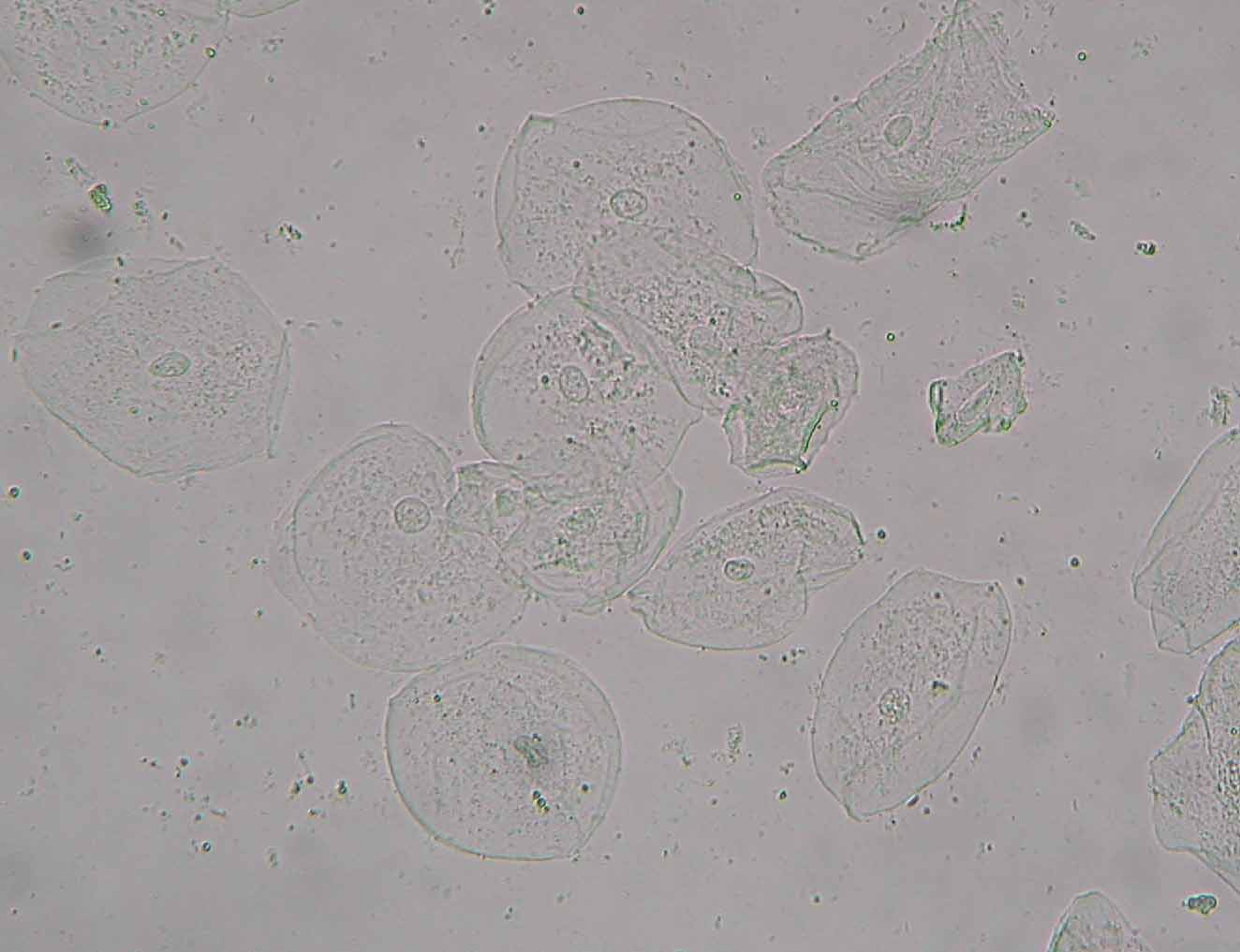 Mundschleimhautzellen